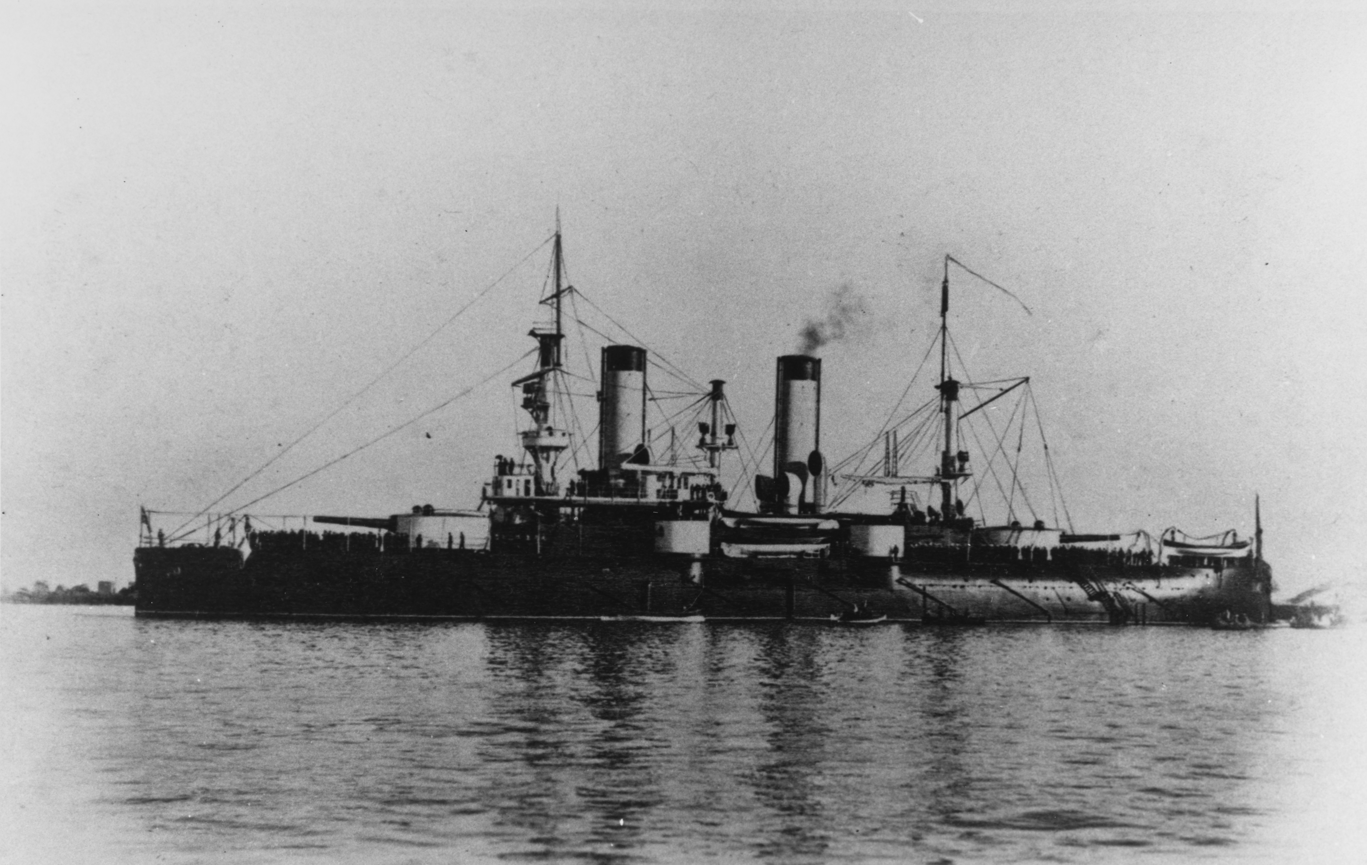 Russian battleship Petropavlovsk in Algiers, 1899